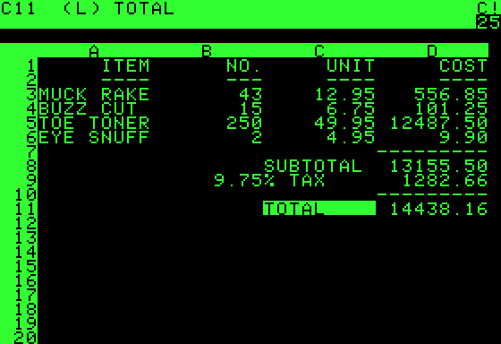 Screenshot of VisiCalc running on an Apple II computer